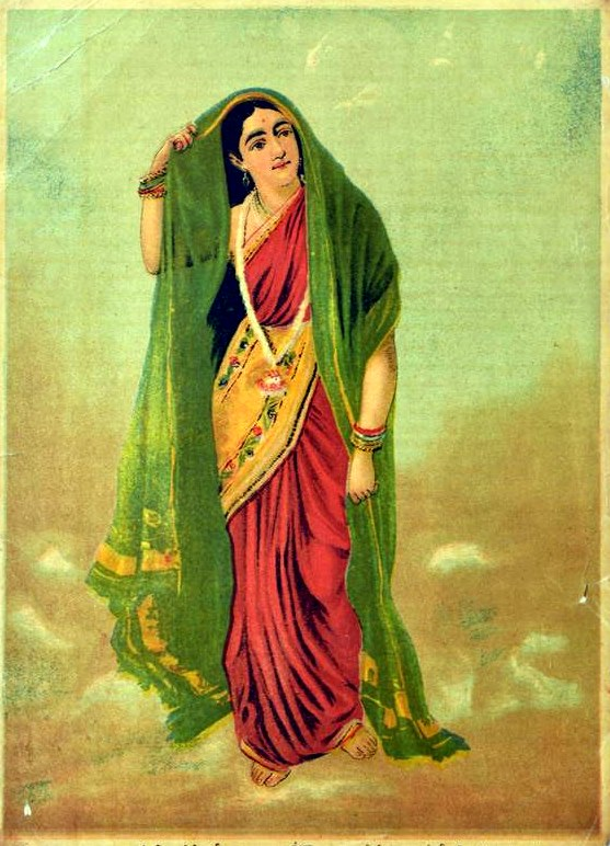 Rambha Early Lithograph by Ravi Varma Press 10 x 7 inches Code No: 12796 Price on Request 0 View to Scale Overview Specifications Contact Us Early Lithograph by Ravi Varma Press Rambha 10 x 7 inches | 25.4 x 17.78 cms